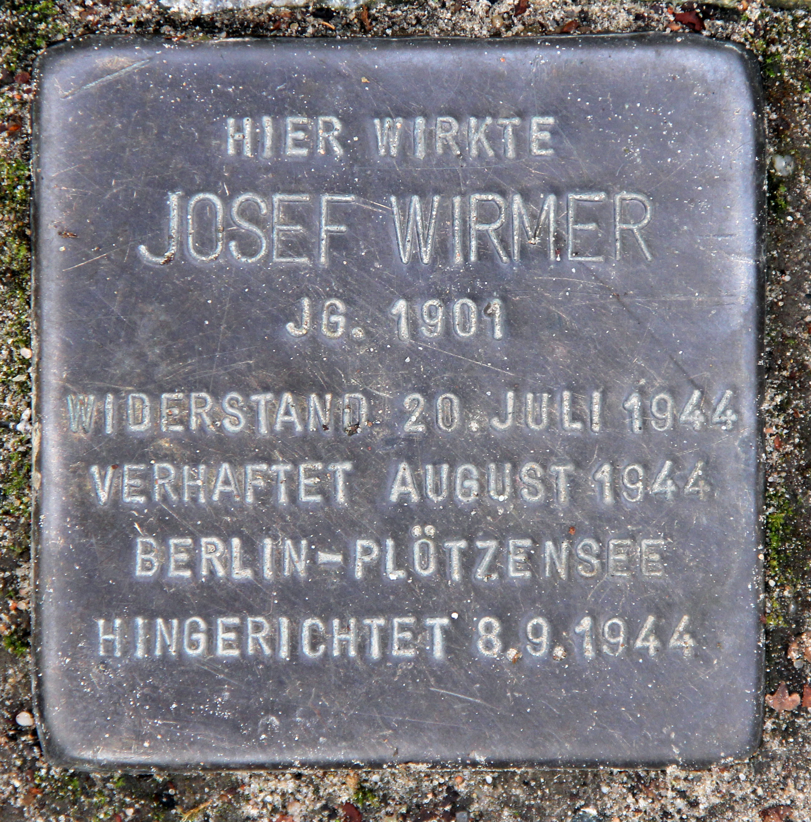 "Stolperstein" (stumbling block), Josef Wirmer, Dürerstraße 17, Berlin-Lichterfelde, Germany Koordinate:52°26′18″N 13°18′29″E / 52.43833°N 13.30806°E